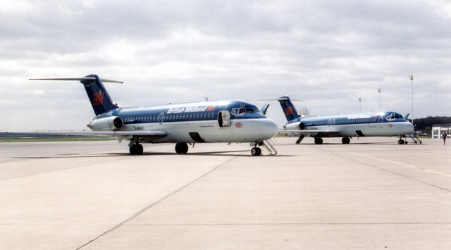 Main apron - Teesside airport Two DC-9's of British Midland Airways sit on the main apron. On the right of the picture can be seen the terminal building.